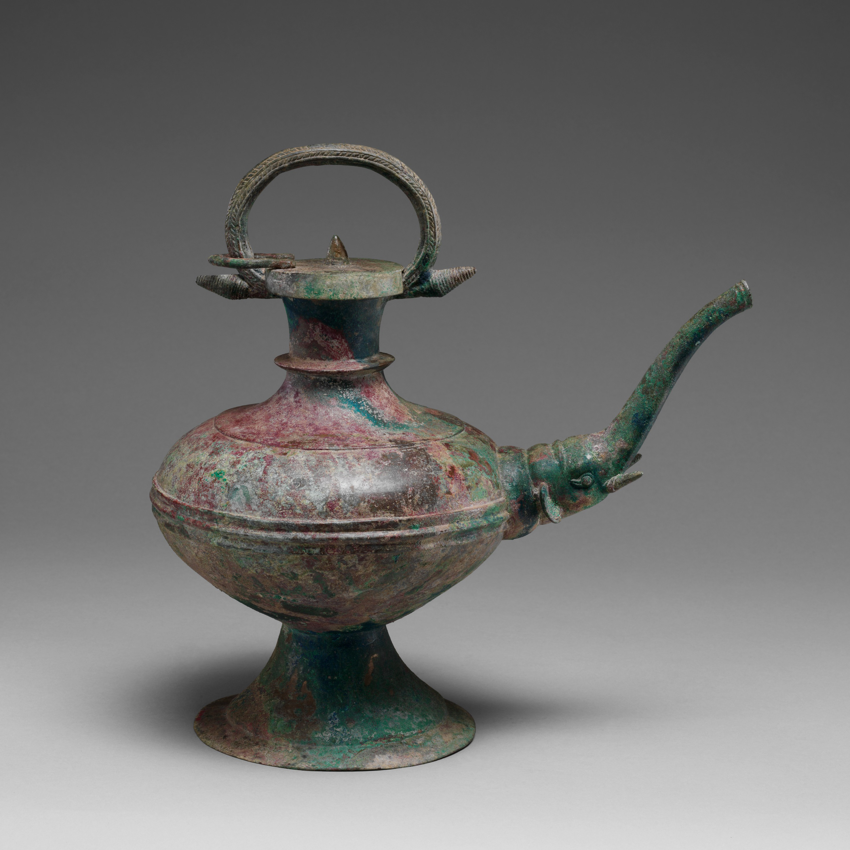 This bronze ewer with an elephant head pouring spout originated in Vietnam from the late 2nd to 3rd centuries during the Han dynasty and is part of the Asian art collection of the Metropolitan Museum of Art in New York.